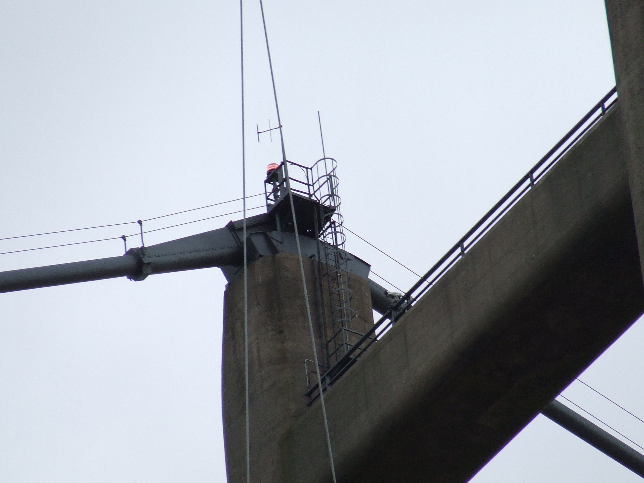 A close up of the Humber Bridge, England, showing the technical detail on top of one of the towers. The photo is a little blurred as it was taken at full zoom, unsupported whilst i was bloomin' cold!! Leftcase 21:04, 13 January 2007 (UTC)